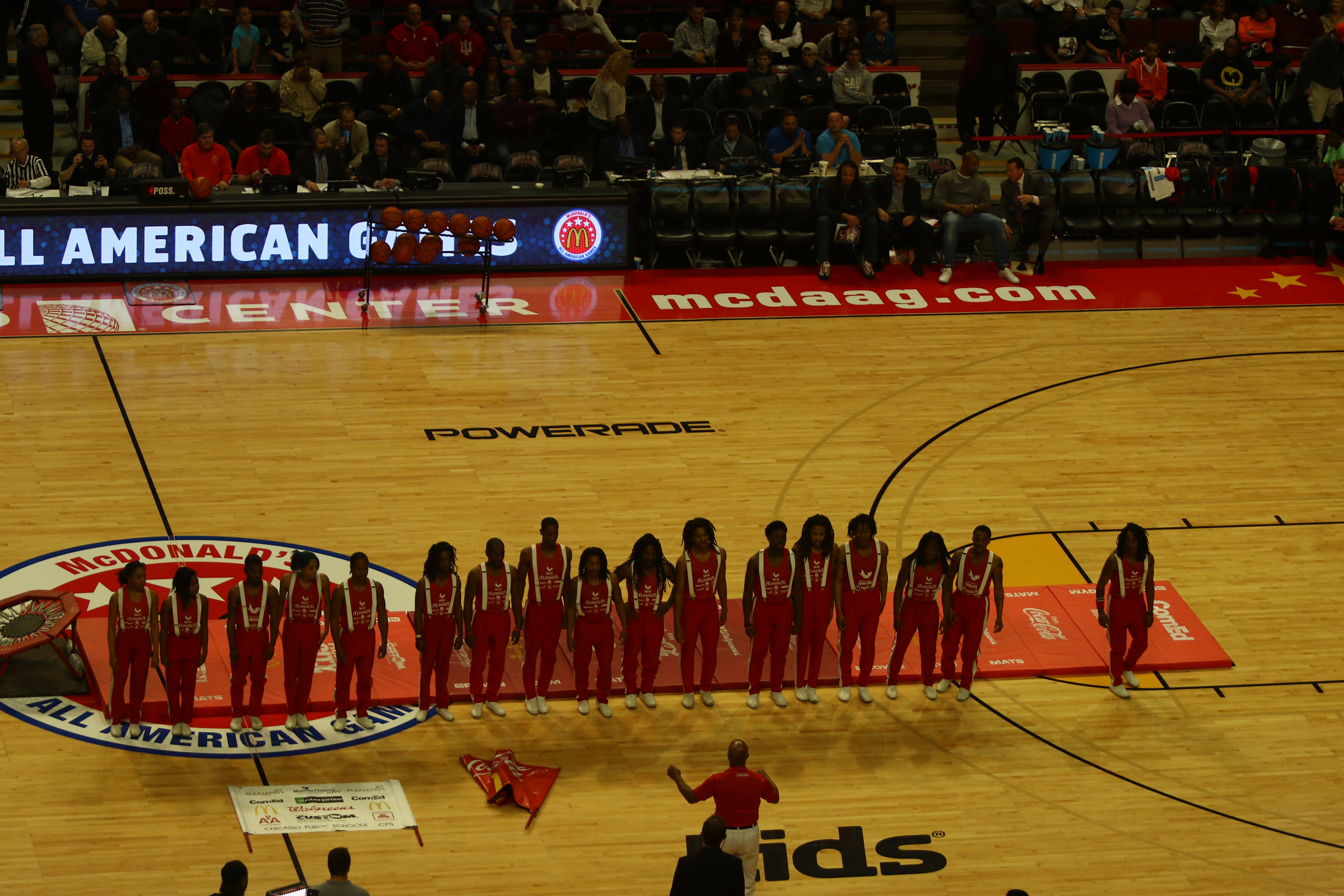 Jesse White Tumbling Team at half time of the w:2015 McDonald's All-American Boys Game